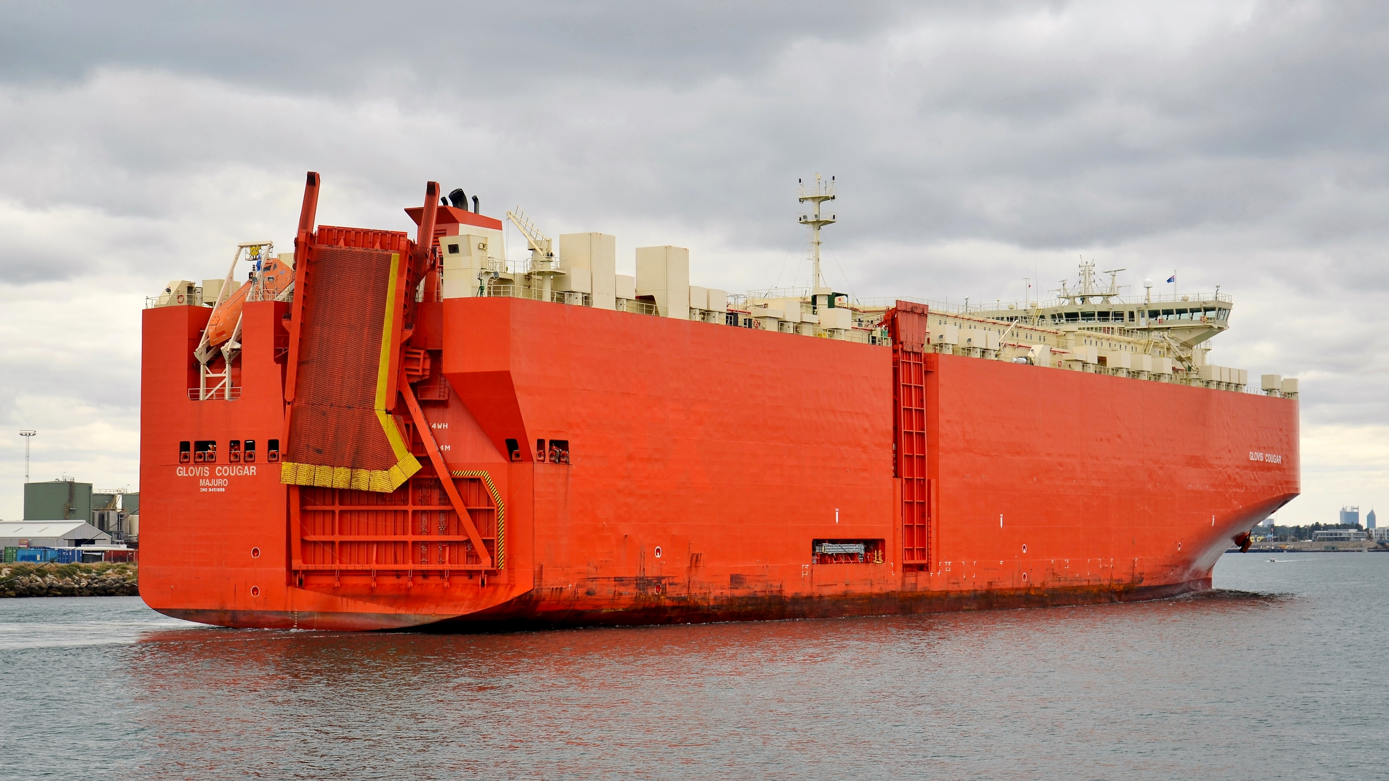 Hyundai Glovis car carrier Glovis Cougar entering the inner harbour of the Port of Fremantle, Western Australia, with a liner service from Europe - previous stop: Durban, South Africa; next stop: Melbourne, Australia.